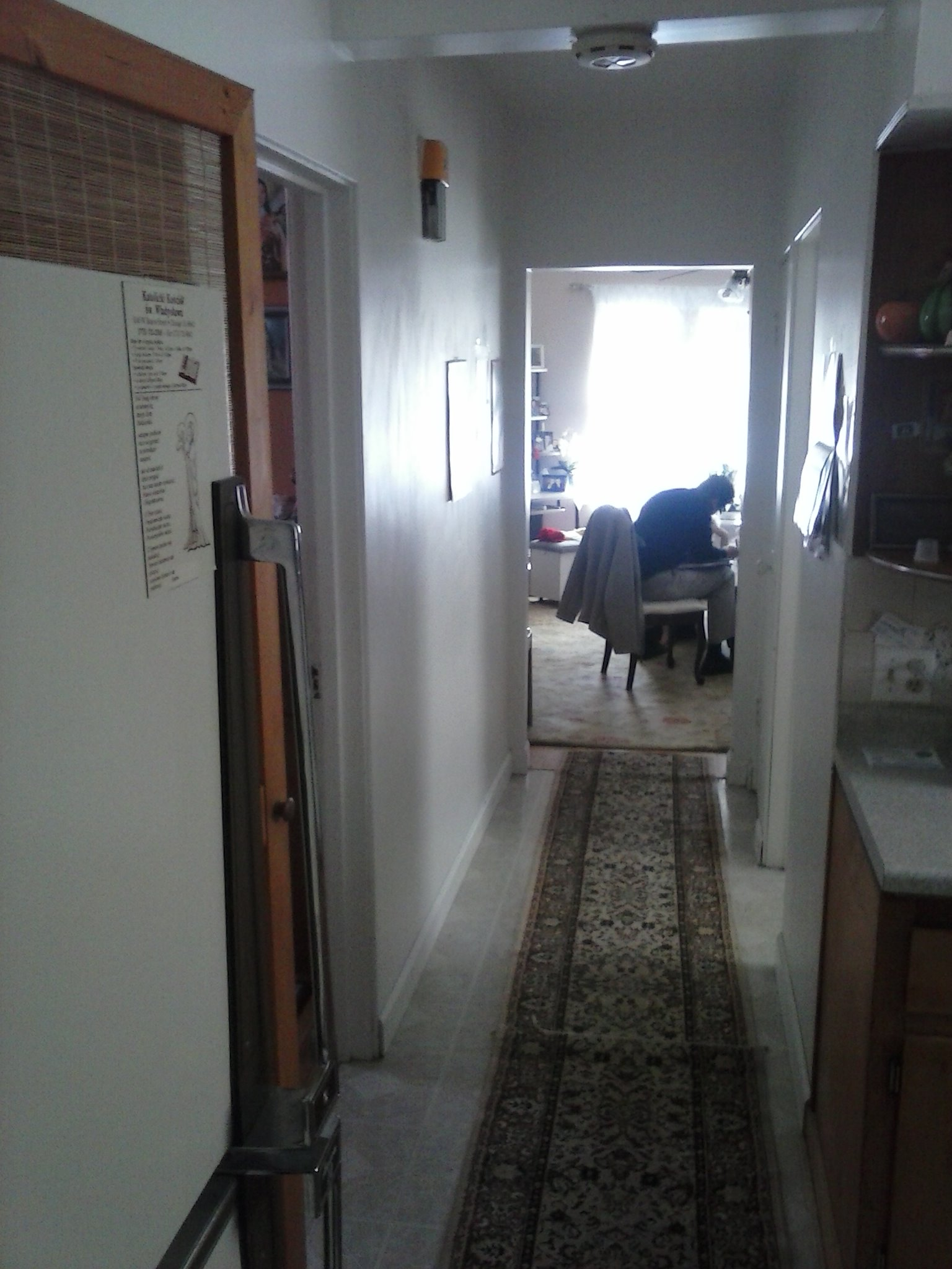 Insurance agents with lines of authority in life, health usually make appointments to meet prospective clients at a client's home, where they make a presentation, and proceed to write business, if they are lucky.